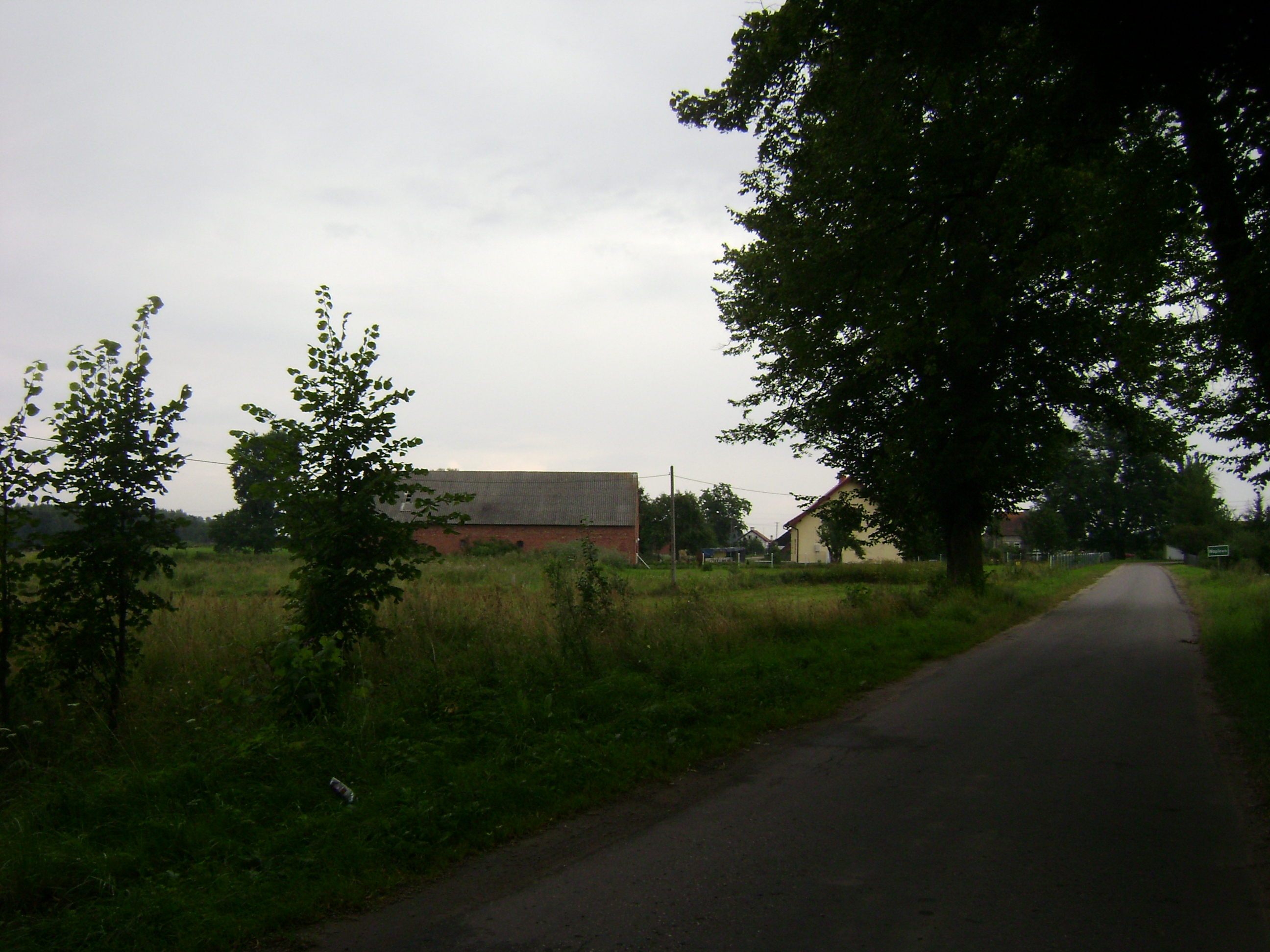 Poland. Gmina Pasym. Waplewo Village